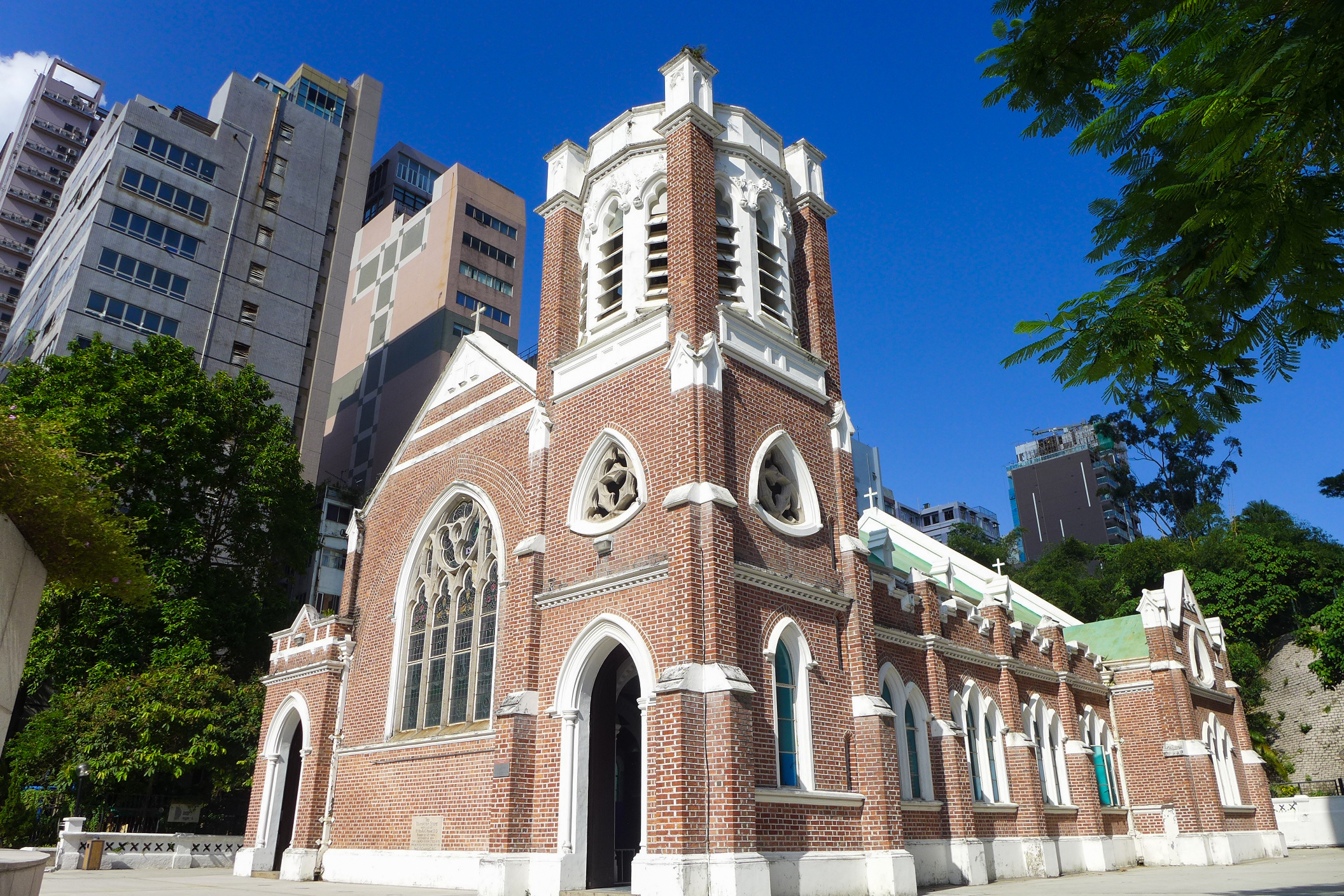 St Andrew's Church Interior